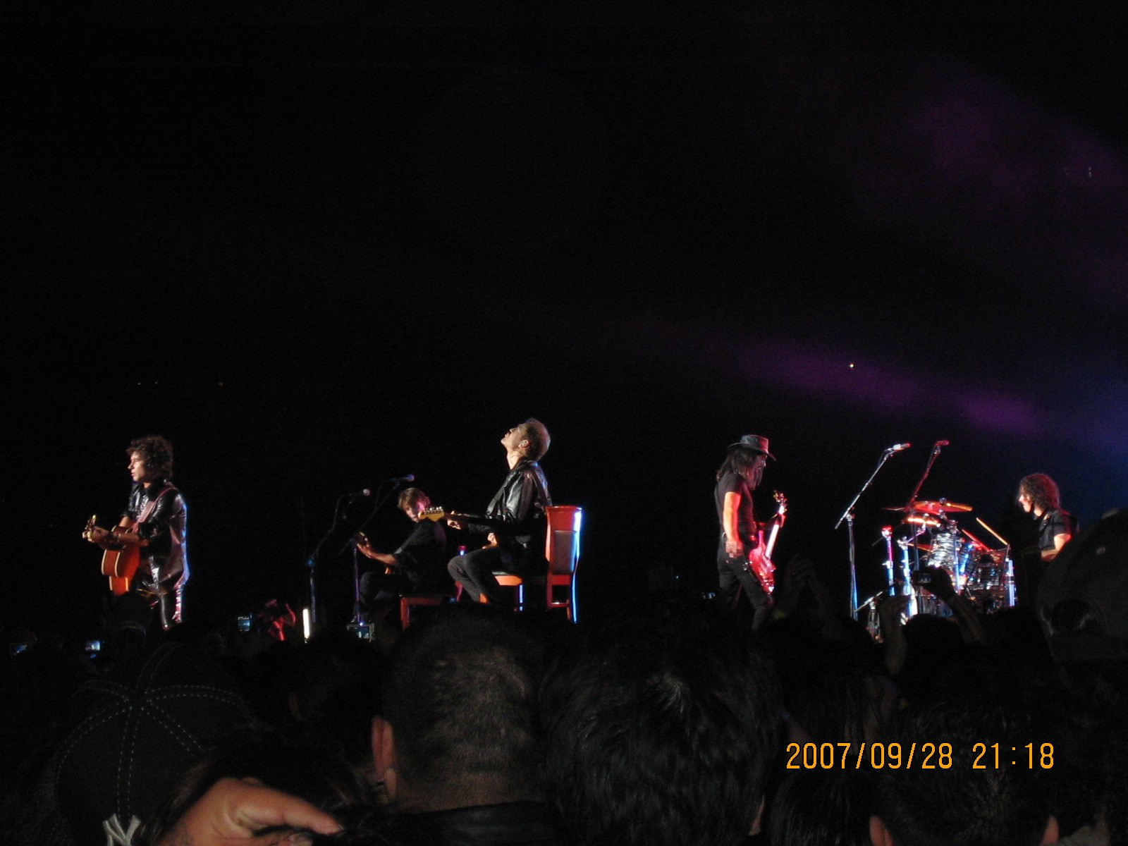 Heroes del Silencio Home Depot Center Carson, California